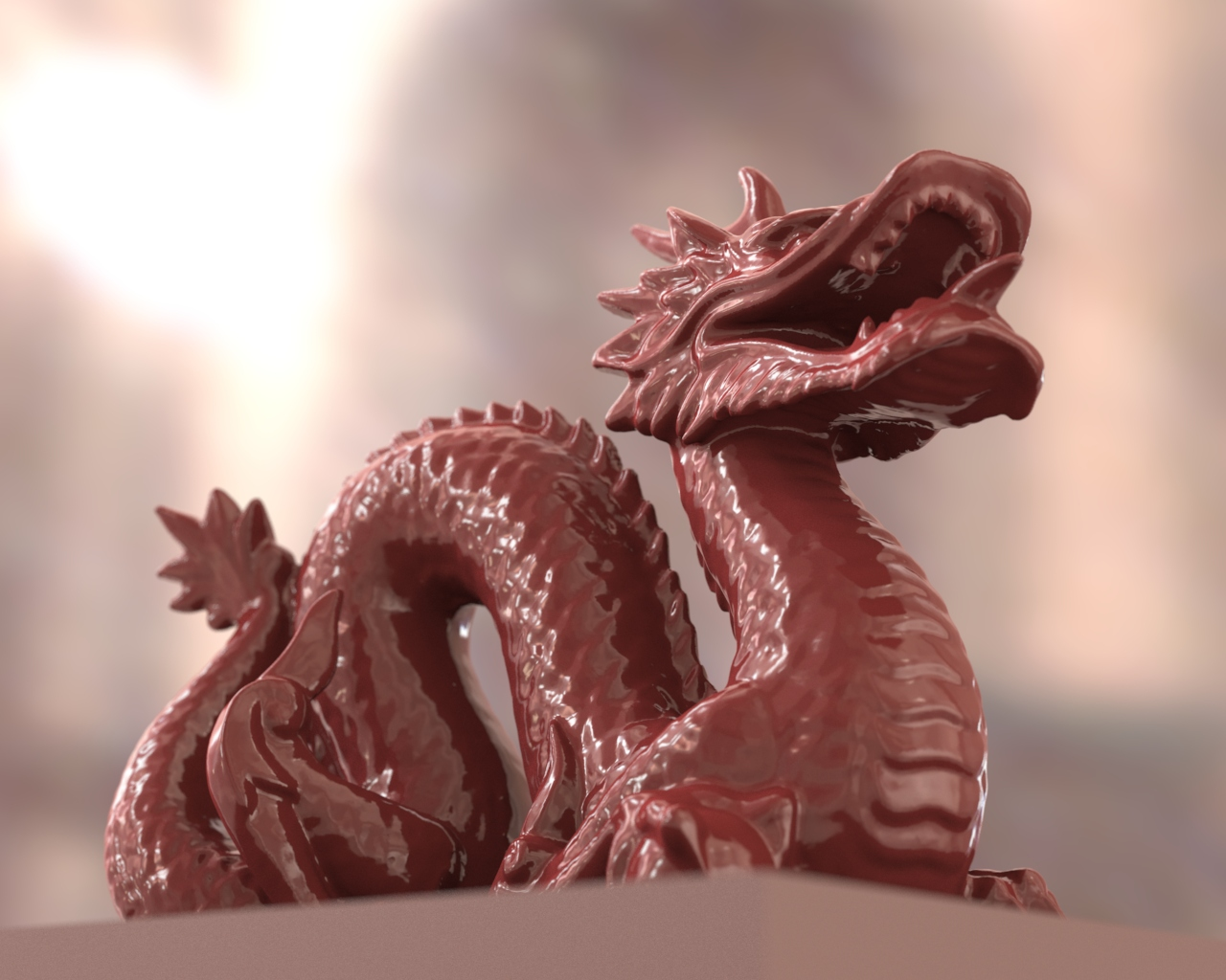 More red dragon, using Debevec's galieo tomb map (what a nice light!). snogray -s1280x1024 -a16 -Rlight-samples=4 -Rbrdf-samples=4 -cod40,ru5,oy90,ry-10,md.13,f64,z2,a.6,.7 -b /usr/local/src/snogray/envmaps/debevec/galileo_latlong.hdr test:mesh204:/usr/local/src/snogray/dist/models/dragon.ply /tmp/d27.jpg